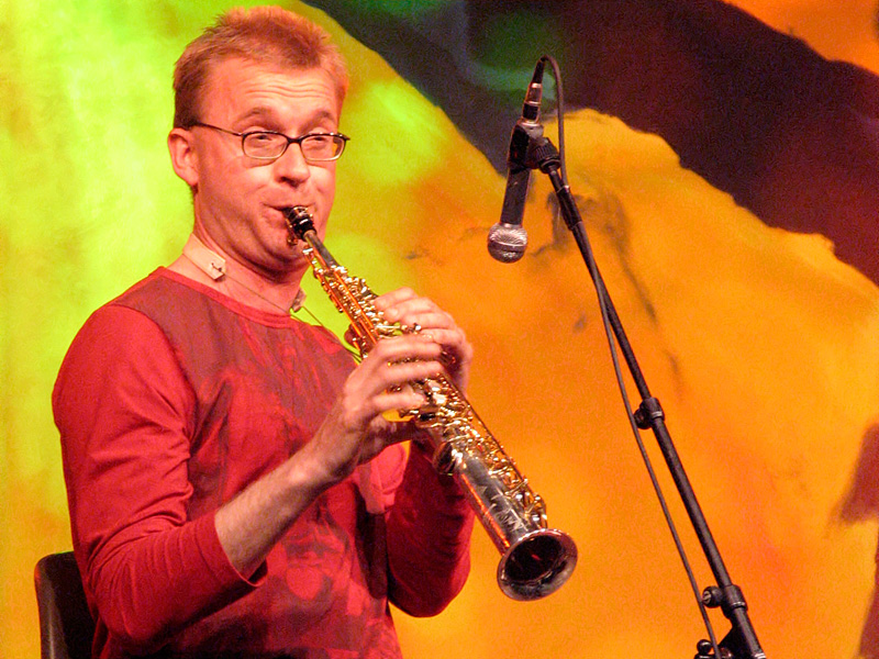 Jasper Blom, Moers Festival 2004